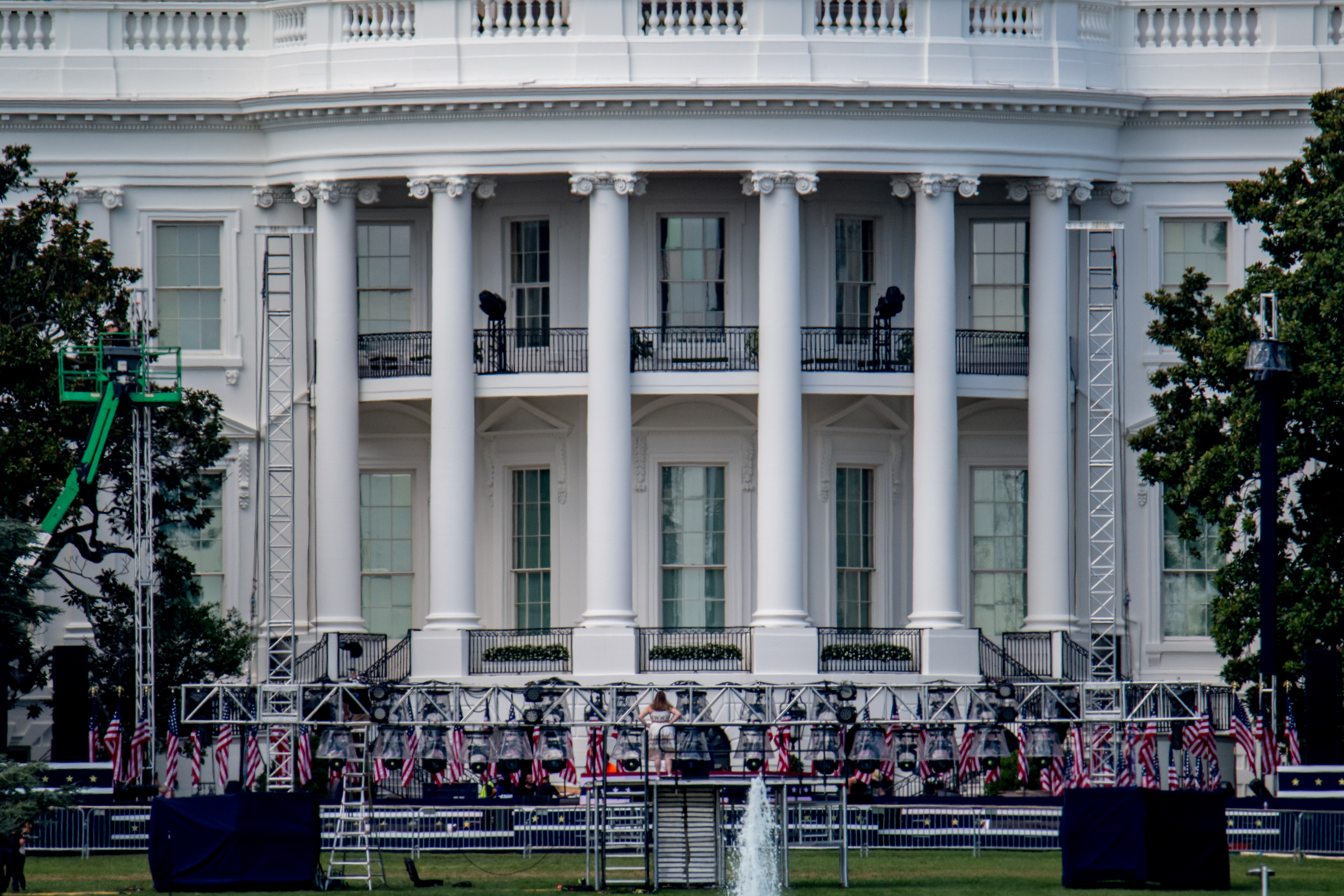 Preparations for the Republican National Convention?